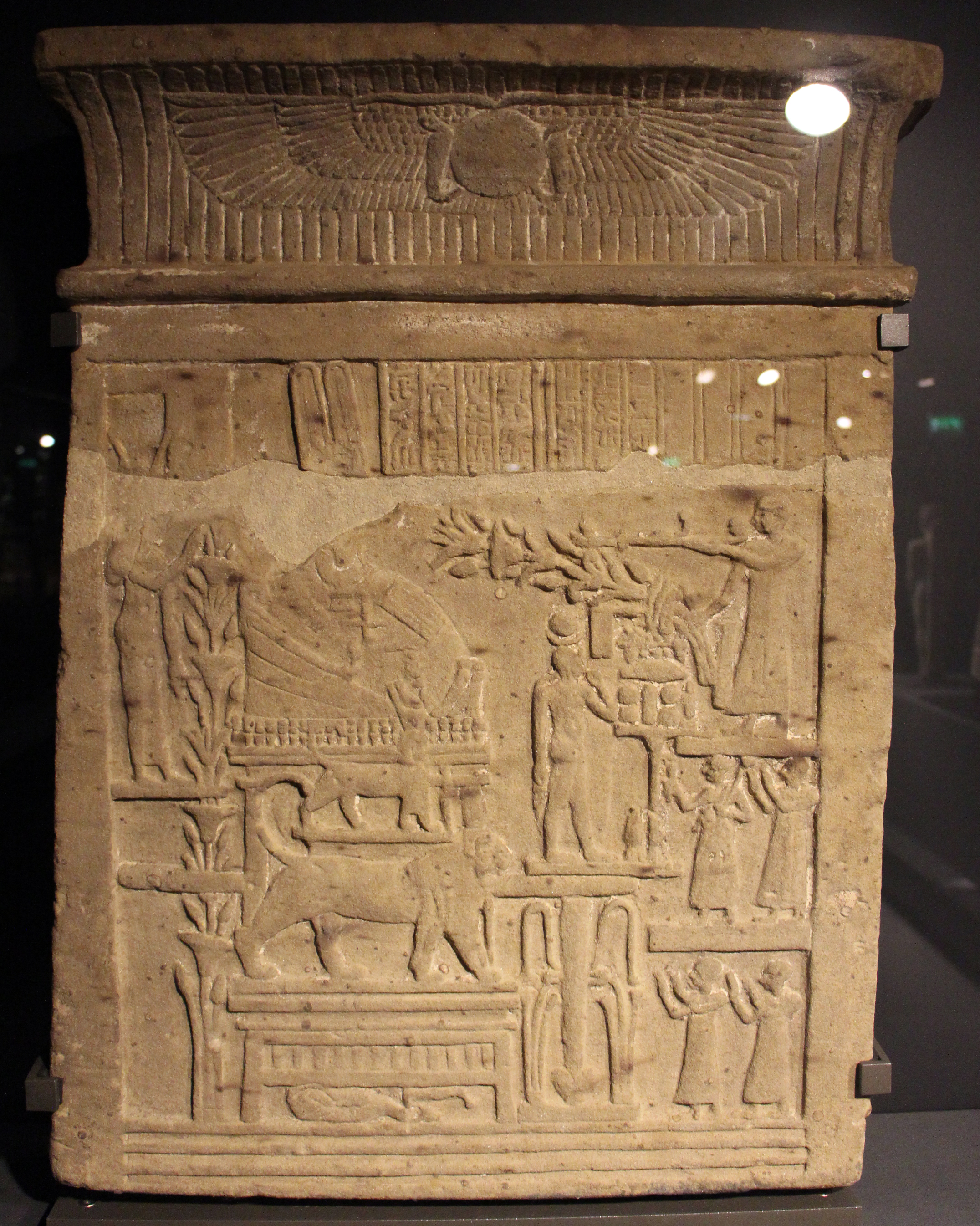 East Mediterranean in the Roman Empire antiquities in the Louvre